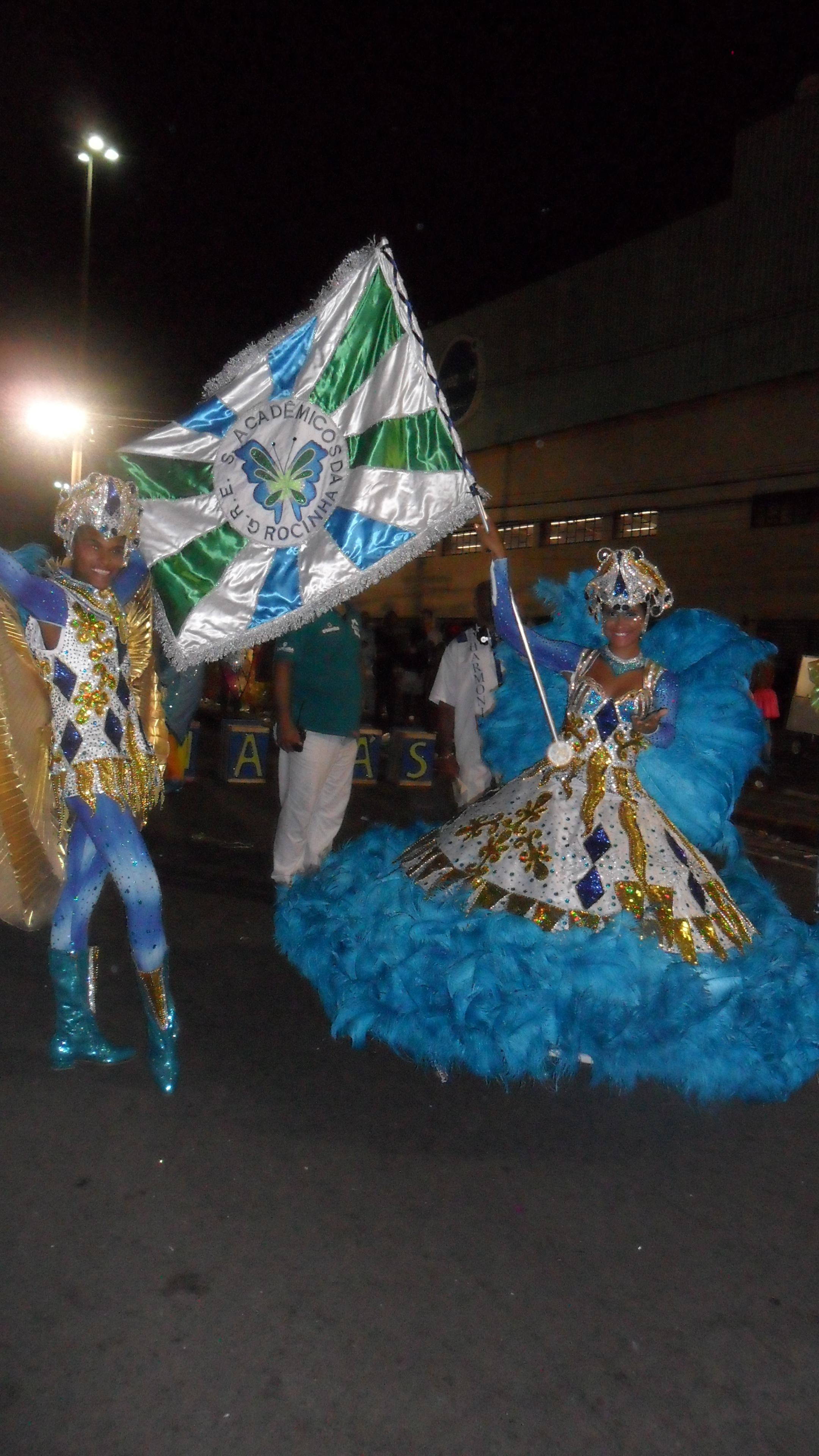 GRES Acadêmicos da Rocinha